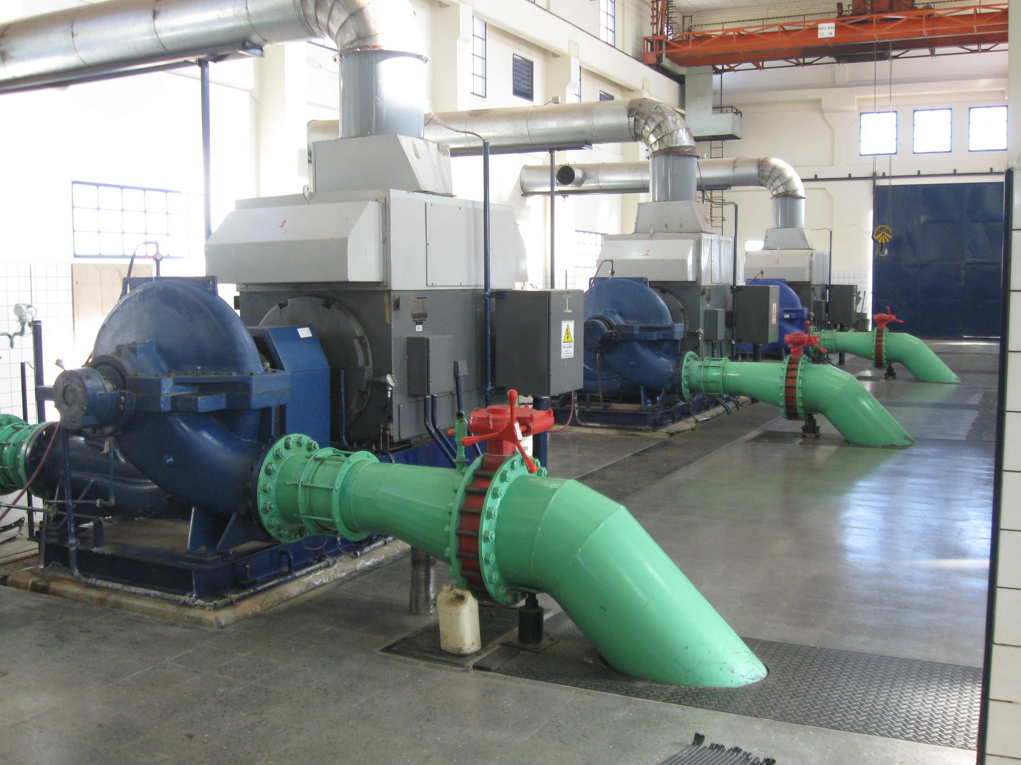 Electrobombas KSB - Estación Sarmiento